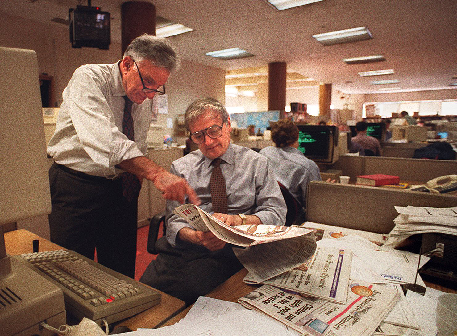 BILL GERMAN AND JACK BREIBART in the San Francisco Chronicle newsroom, 1994. Photo by Nancy Wong